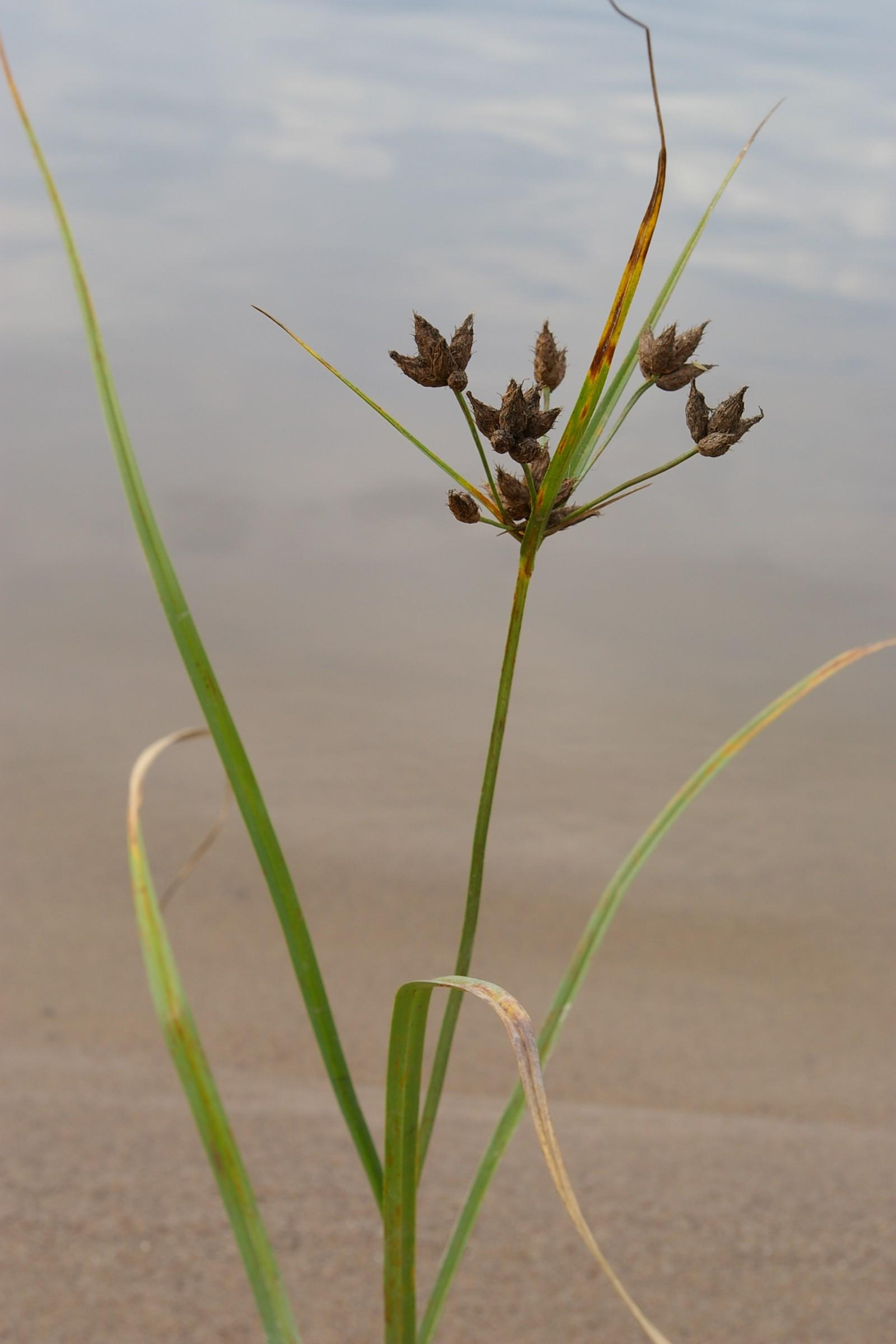 Plant from the complex Bolboschoenus maritimus s.l., probably the species Bolboschoenus laticarpus.